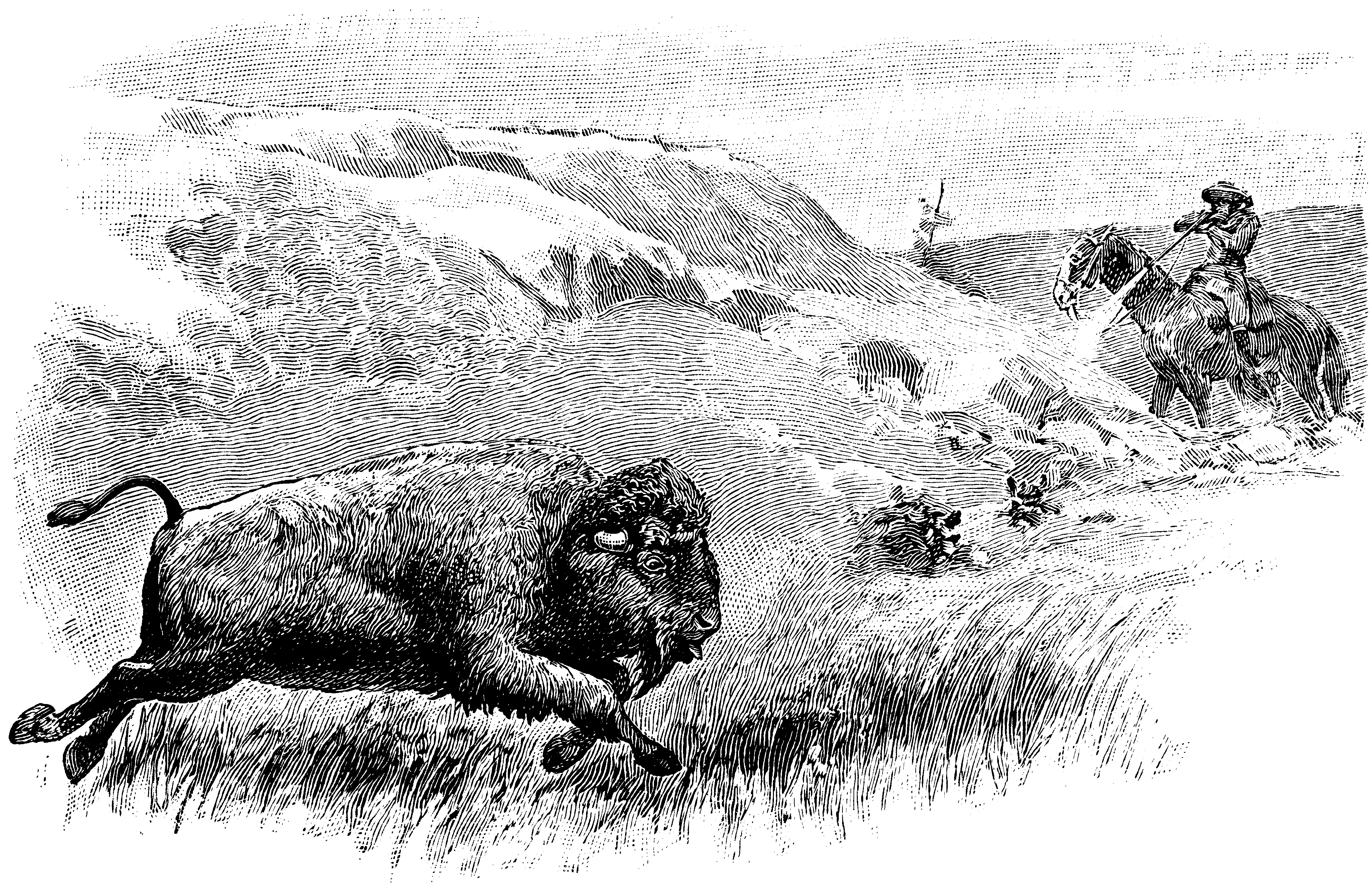 How they used to shoot Buffalo in the Far West.